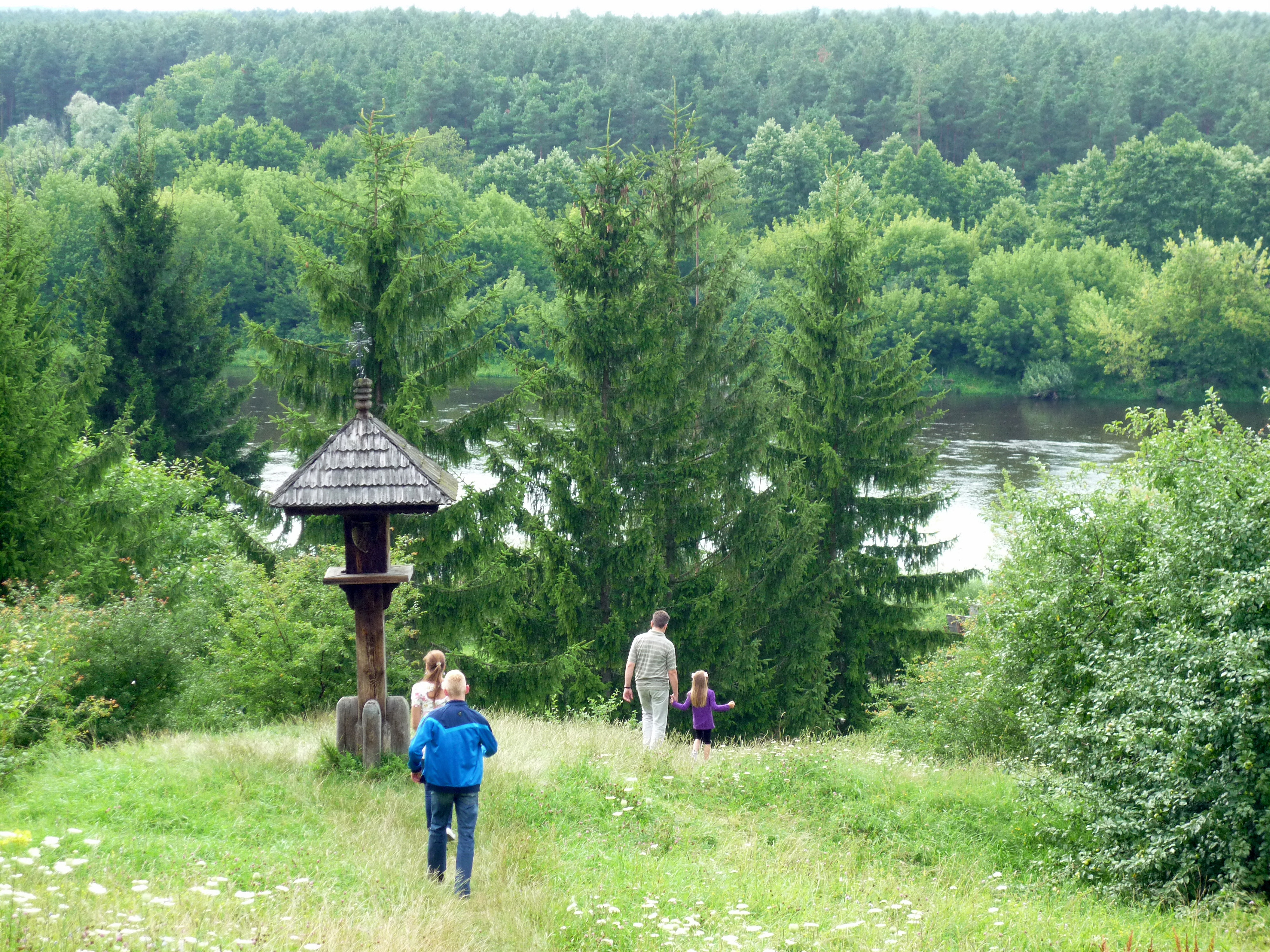 Nowogród (Poland) - Kurpie open-air museum